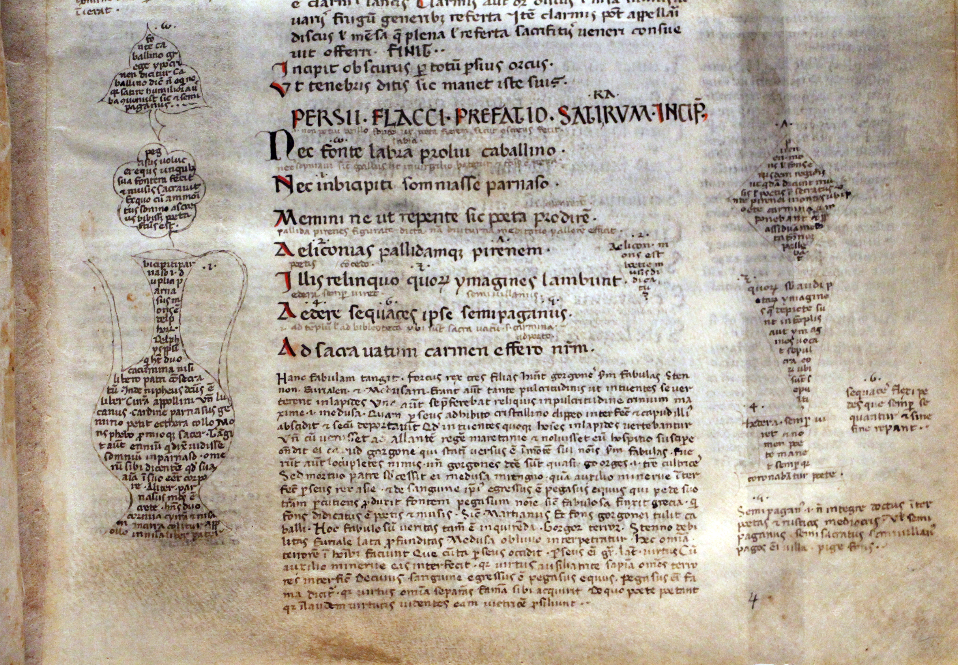 Latin Miscellany copied by Giovanni Boccaccio (BML Pluteo 33.31)